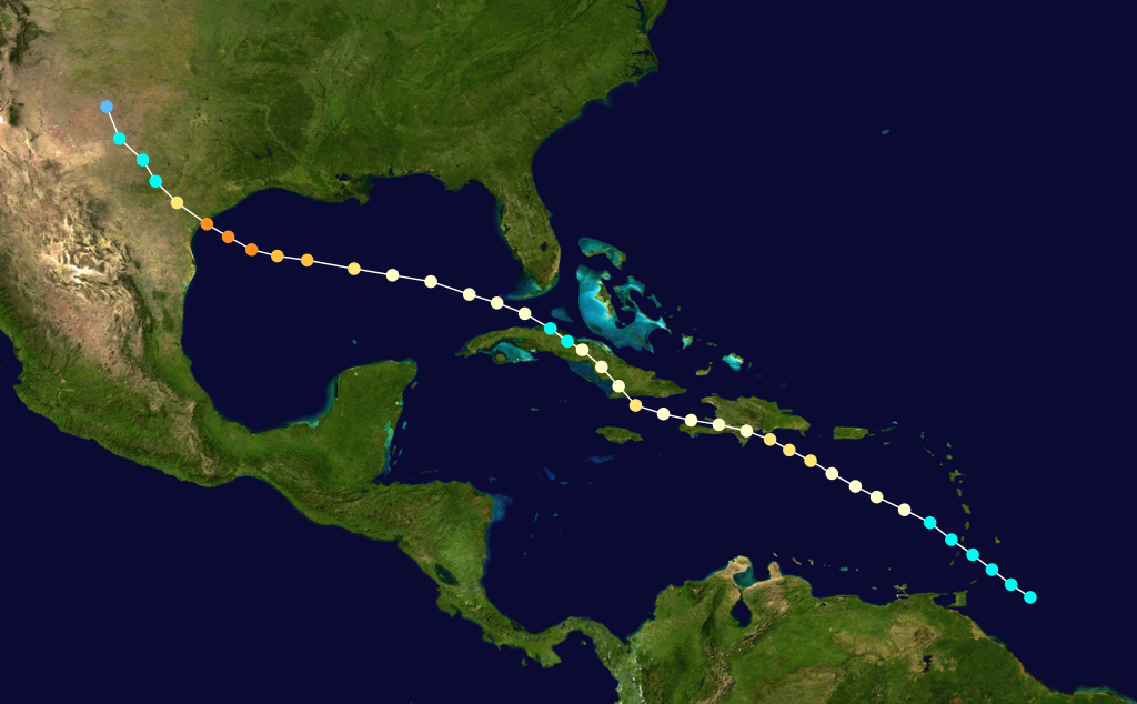 1886 Indianola hurricane track. Uses the color scheme from the Saffir-Simpson Hurricane Scale.